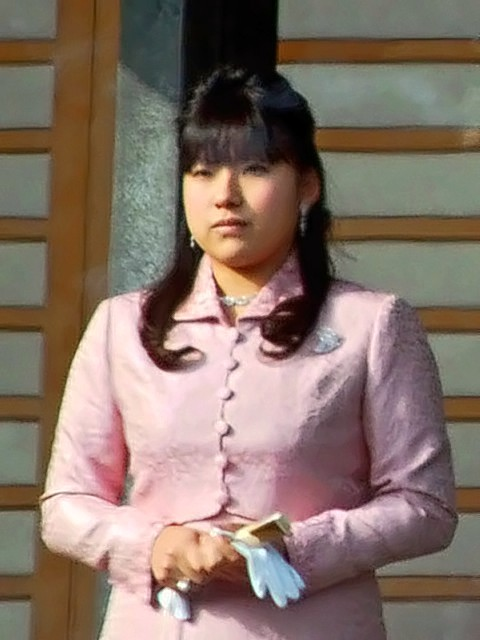 新年一般参賀における、絢子女王(Princess Ayako)